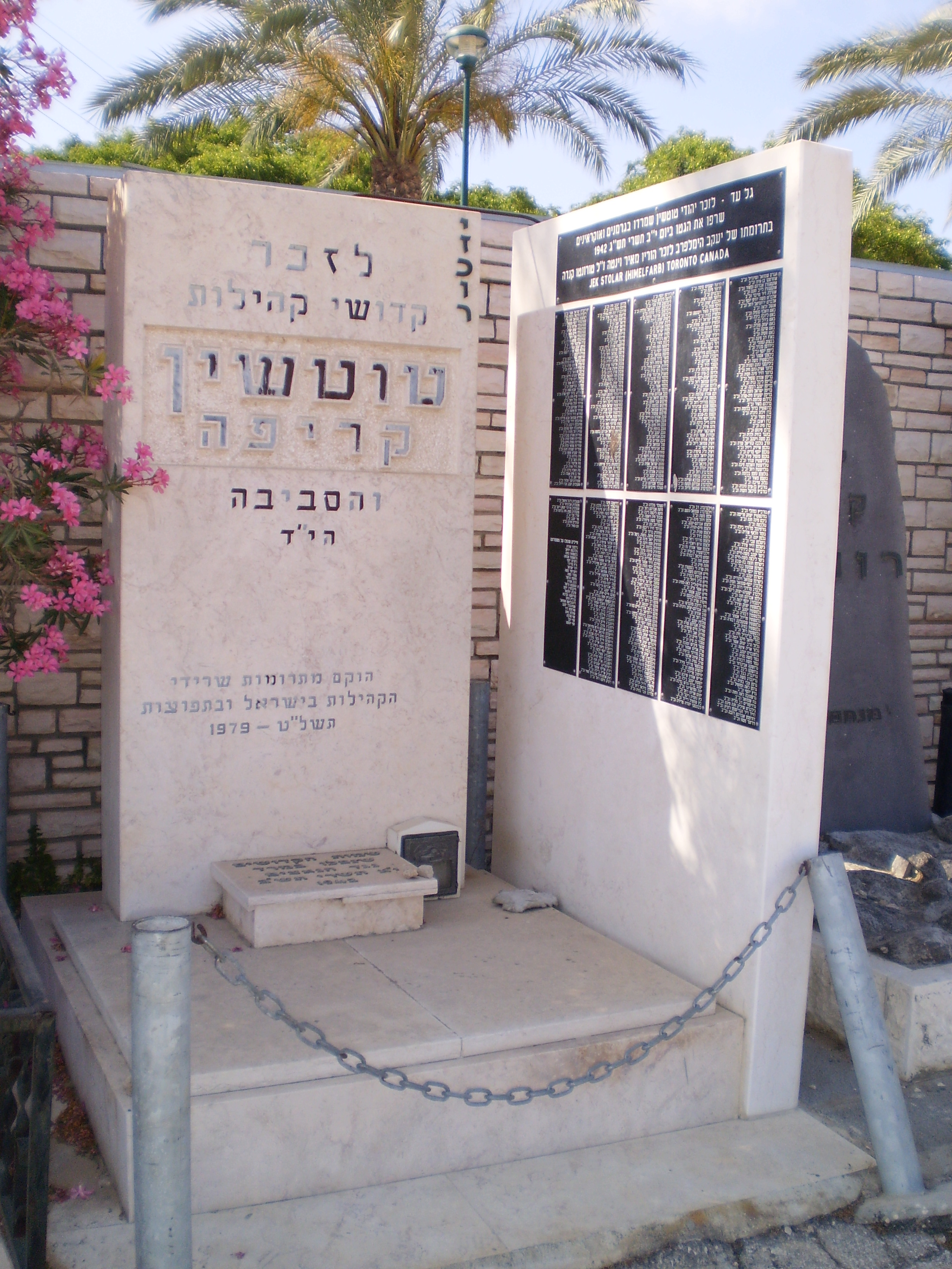 Tuczyn and Horyńgród Jewery Holocaust memorial at Holon Cemetery